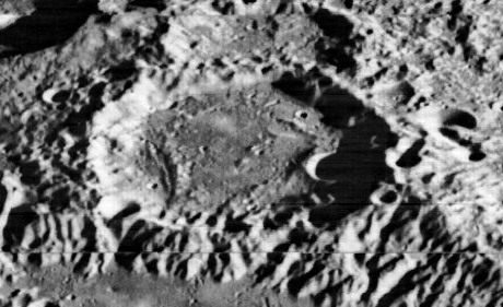 Oblique view of Obruchev crater, on the far side of the moon, facing roughly south.